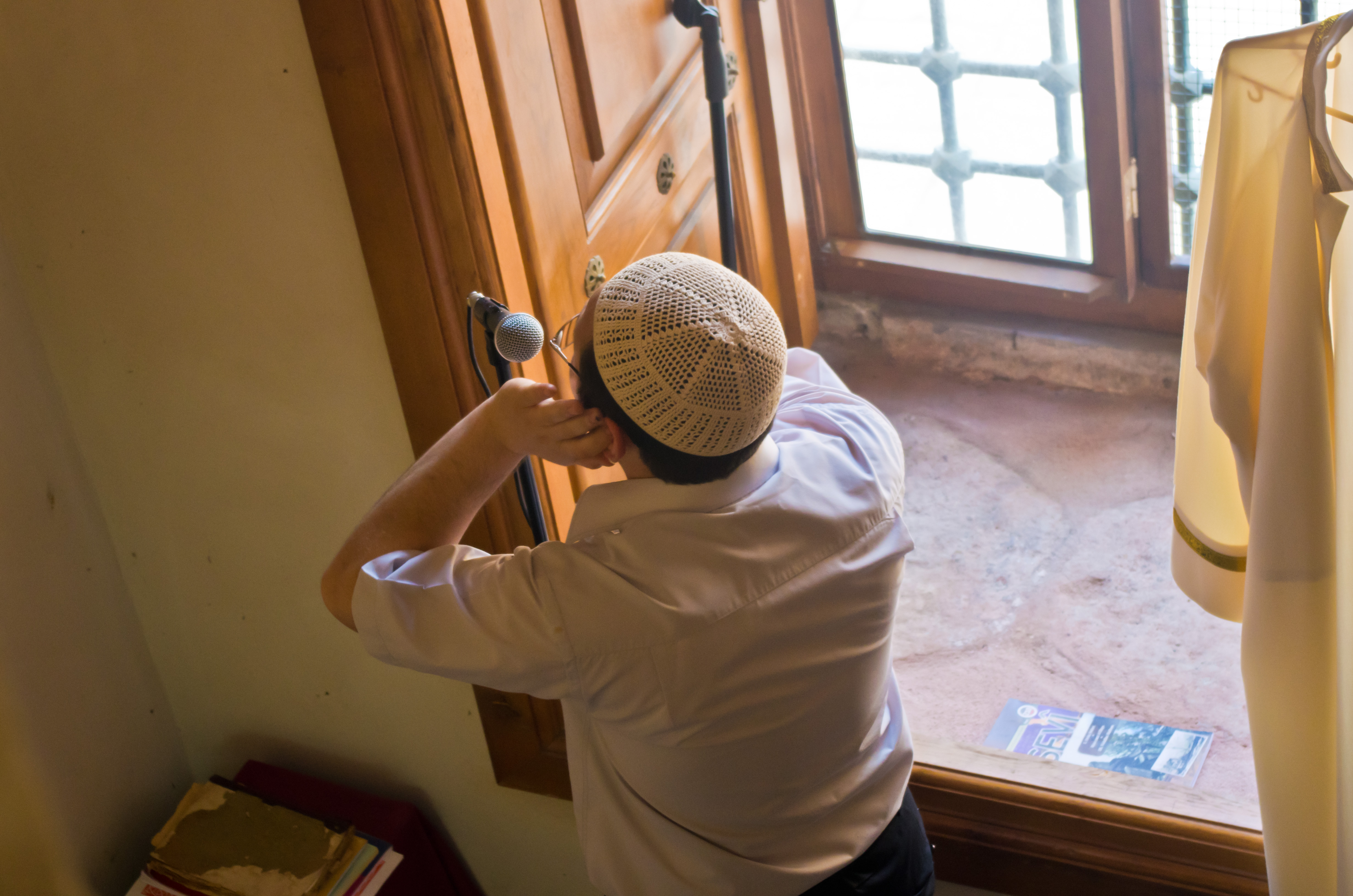 Muezzins in Sergius and Bacchus Church